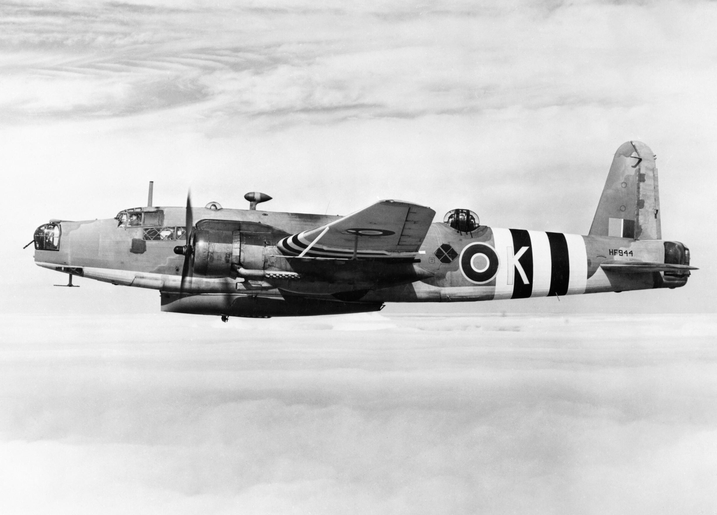 IWM caption : Warwick ASR Mark I, HF944 ‘K’, of No. 282 Squadron RAF based at St Eval, Cornwall, in flight, carrying the short Mark IA Lifeboat.